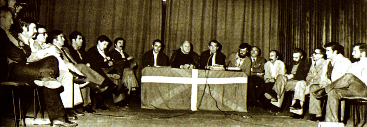 Table of Altsasu, the first photo of the basque pro-independence left party Herri Batasuna.